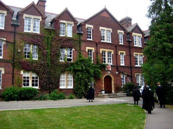 college7